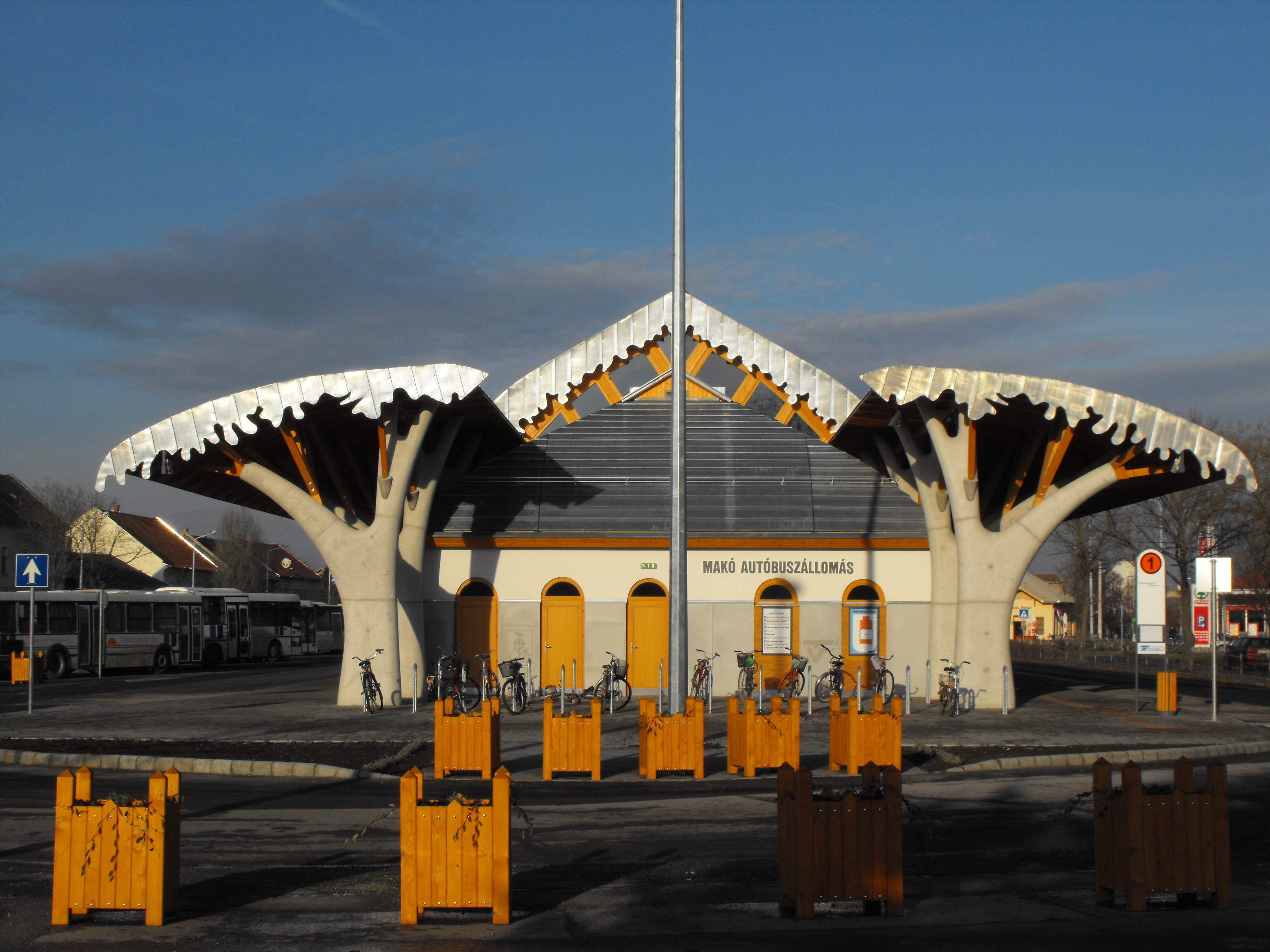 The new Bus Station of Makó, Hungary in January 2011.